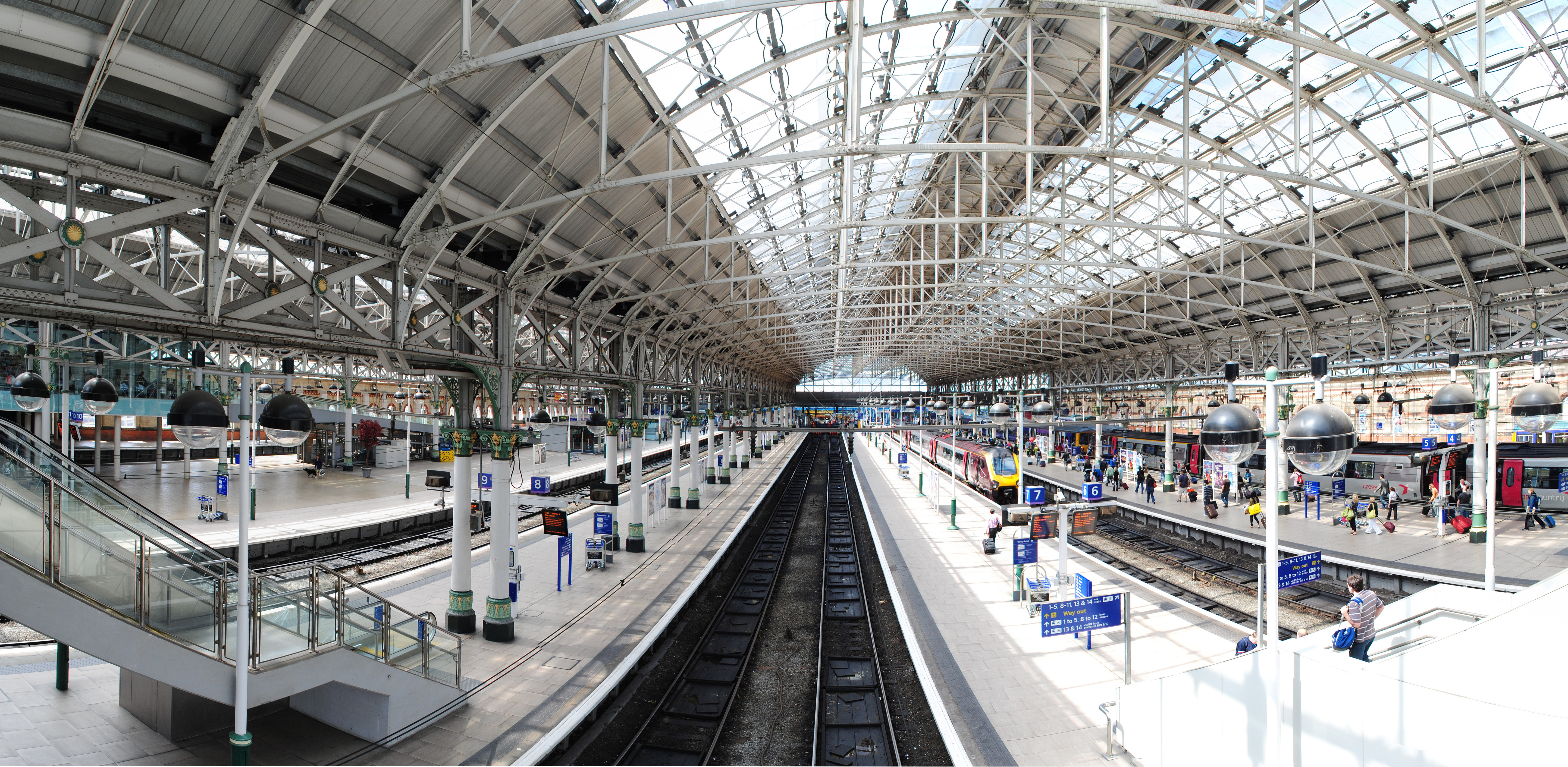 Panorama of Manchester Piccadilly station, stitched by Hugin.